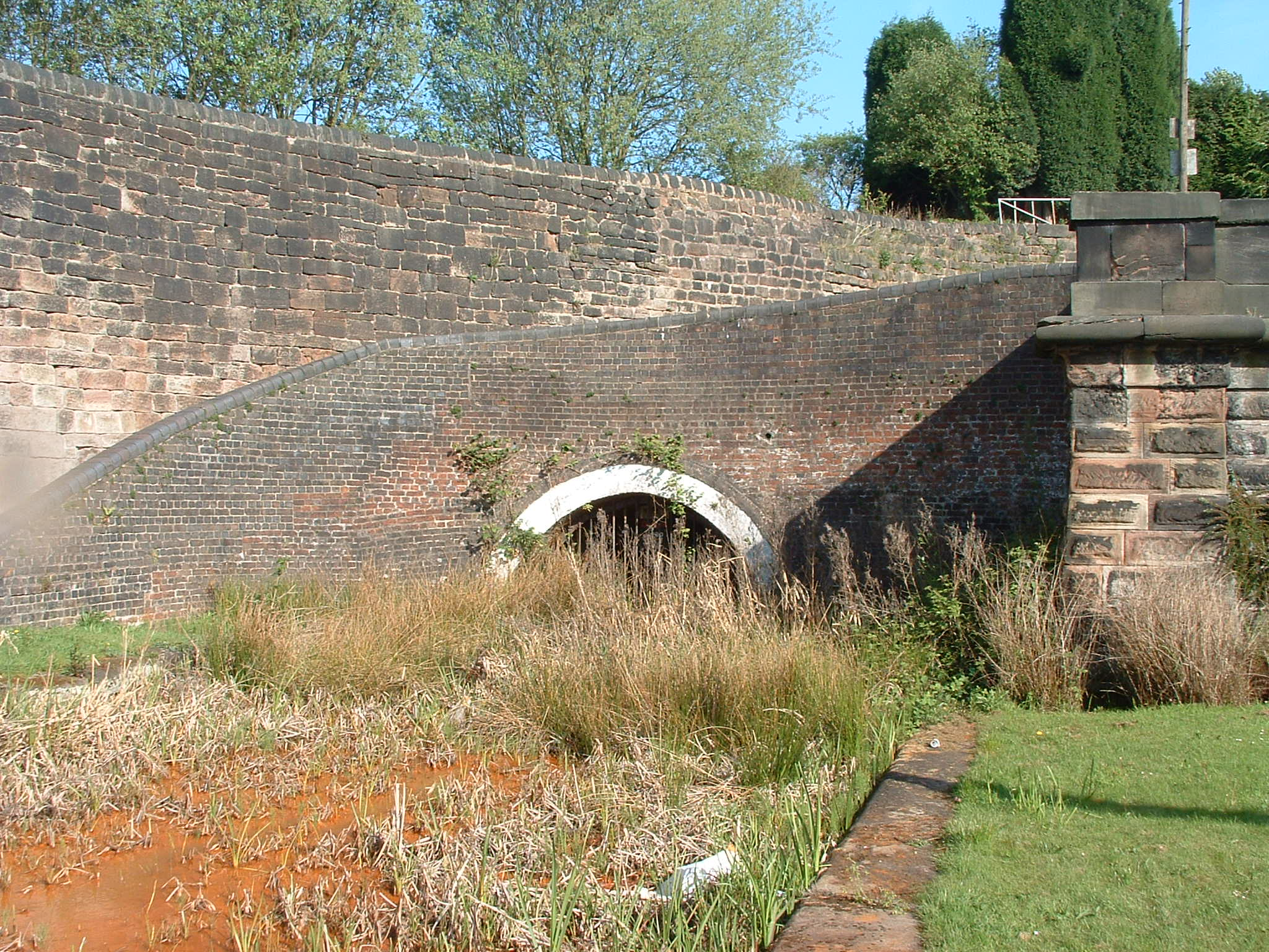 Uploaded by photographer, Akke Monasso